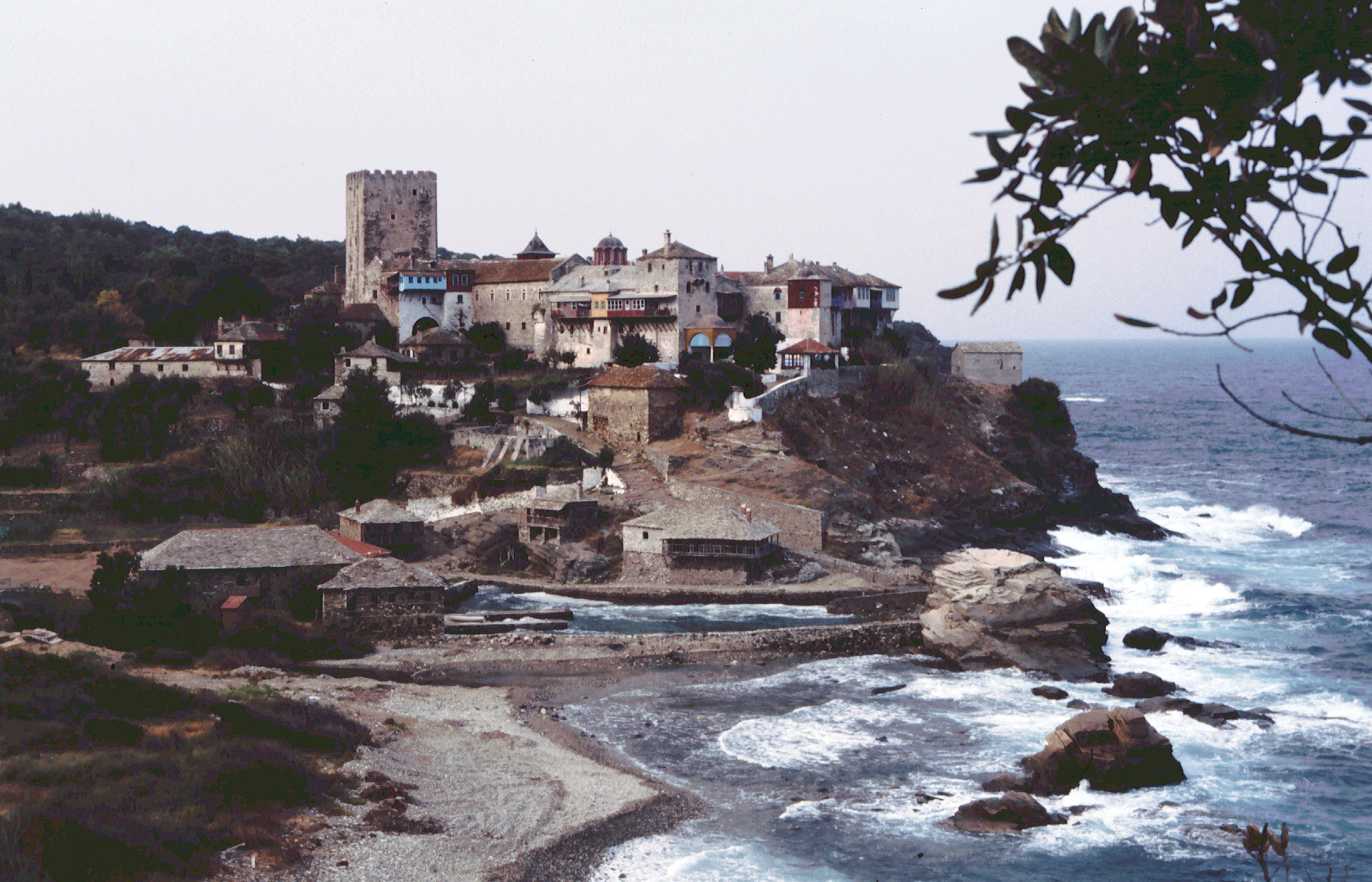 Monastery Pantokratoros